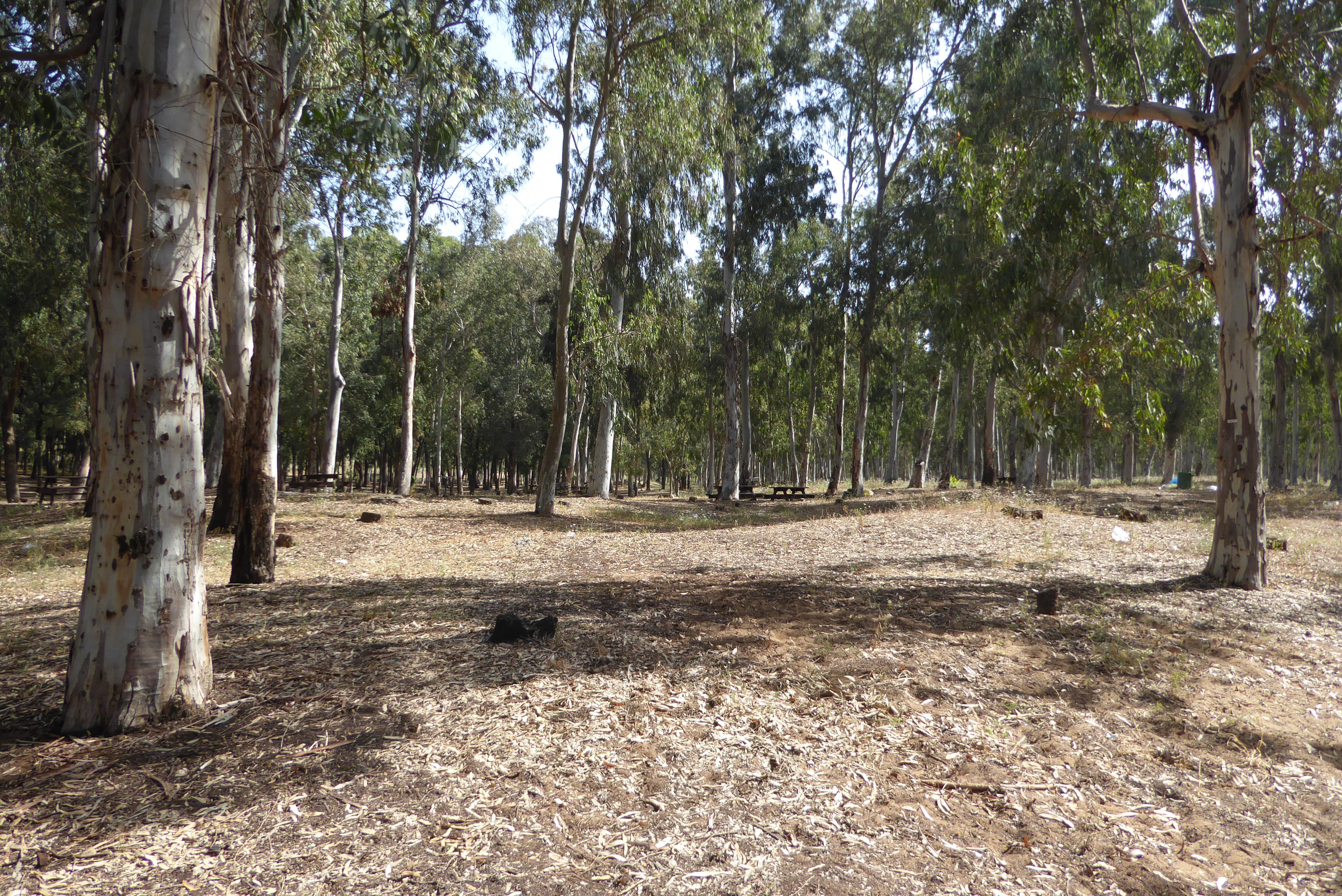 Alexander Stream